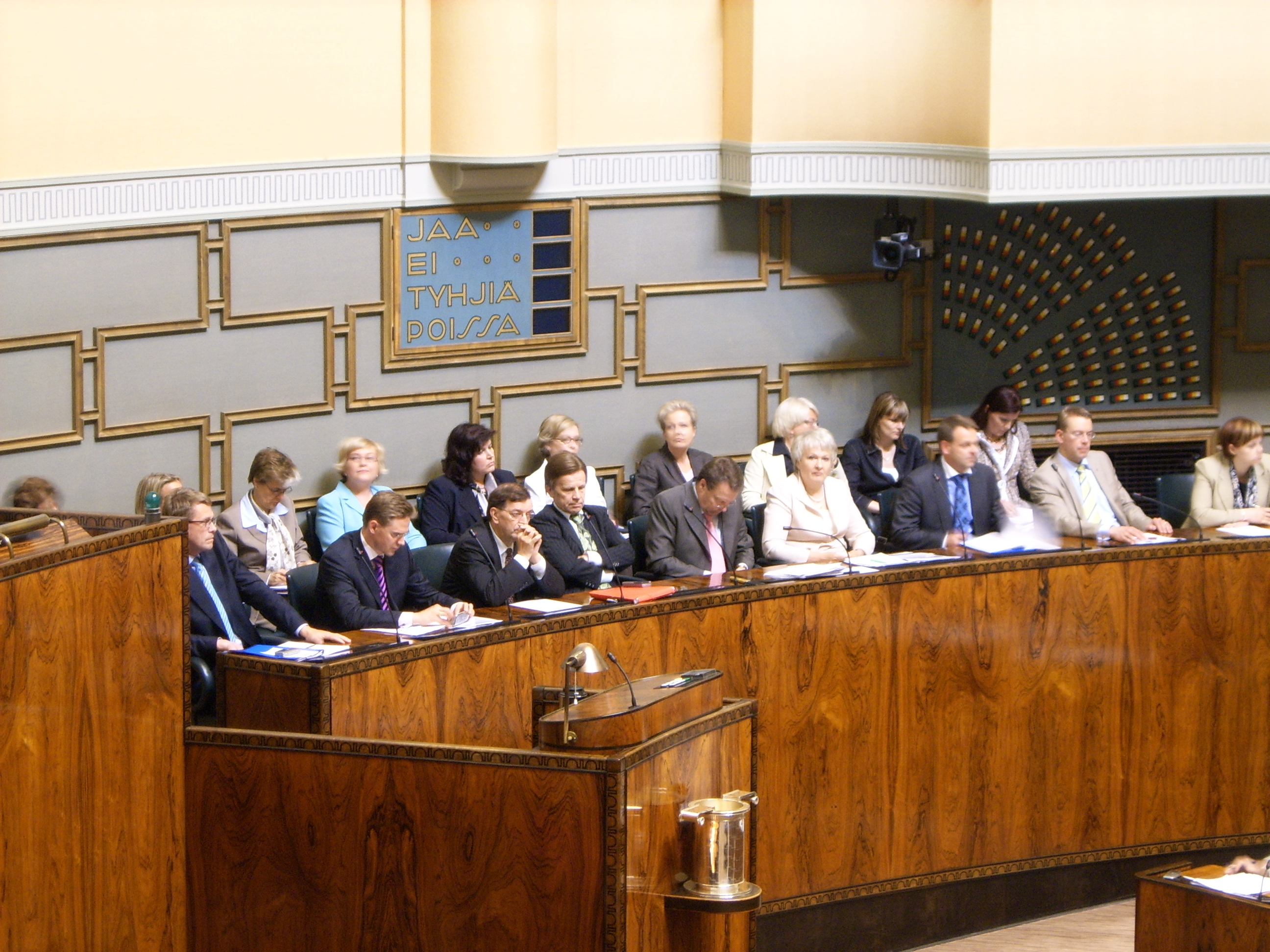 Matti Vanhanen's second cabinet at the Session Hall of the Parliament of Finland. Jyri Häkämies, Minister of Defence, is absent.